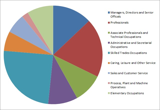 pie chart of occupations of people in Swilland in 2011